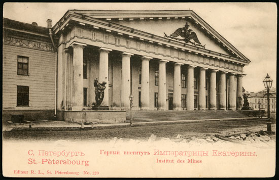 Saint Petersburg (Russia), Saint Petersburg Mining Institute.